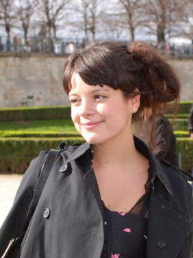 Lily Allen. A cropped version of Image:Lily 1.jpg